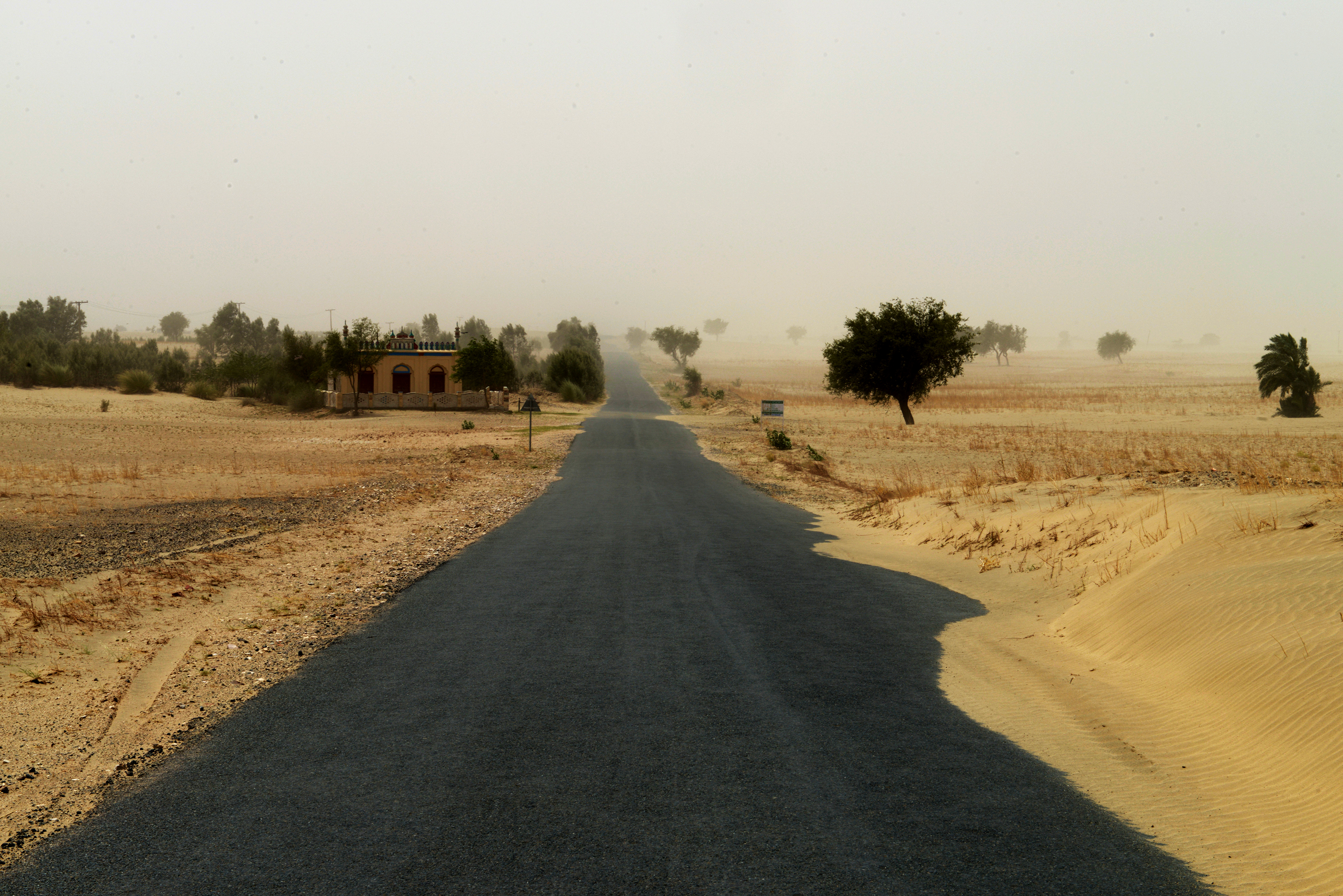 Noorpur Thal desert is located in the district of Punjab, Pakistan. I captured this image when I was traveling towards the direction from which the sand storm was approaching this area.